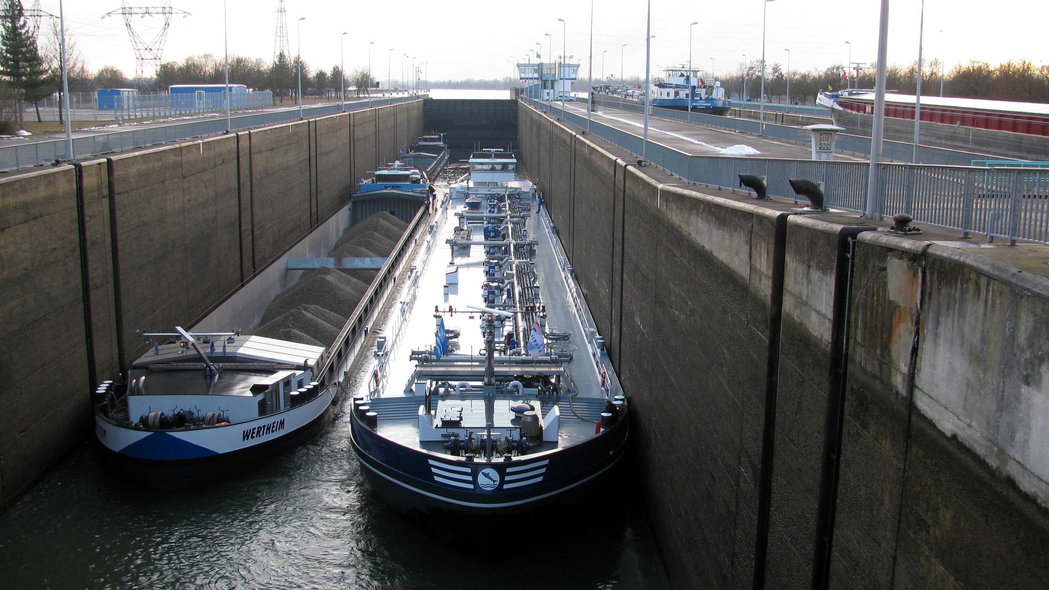 lock, rhine near Gambsheim, looking south